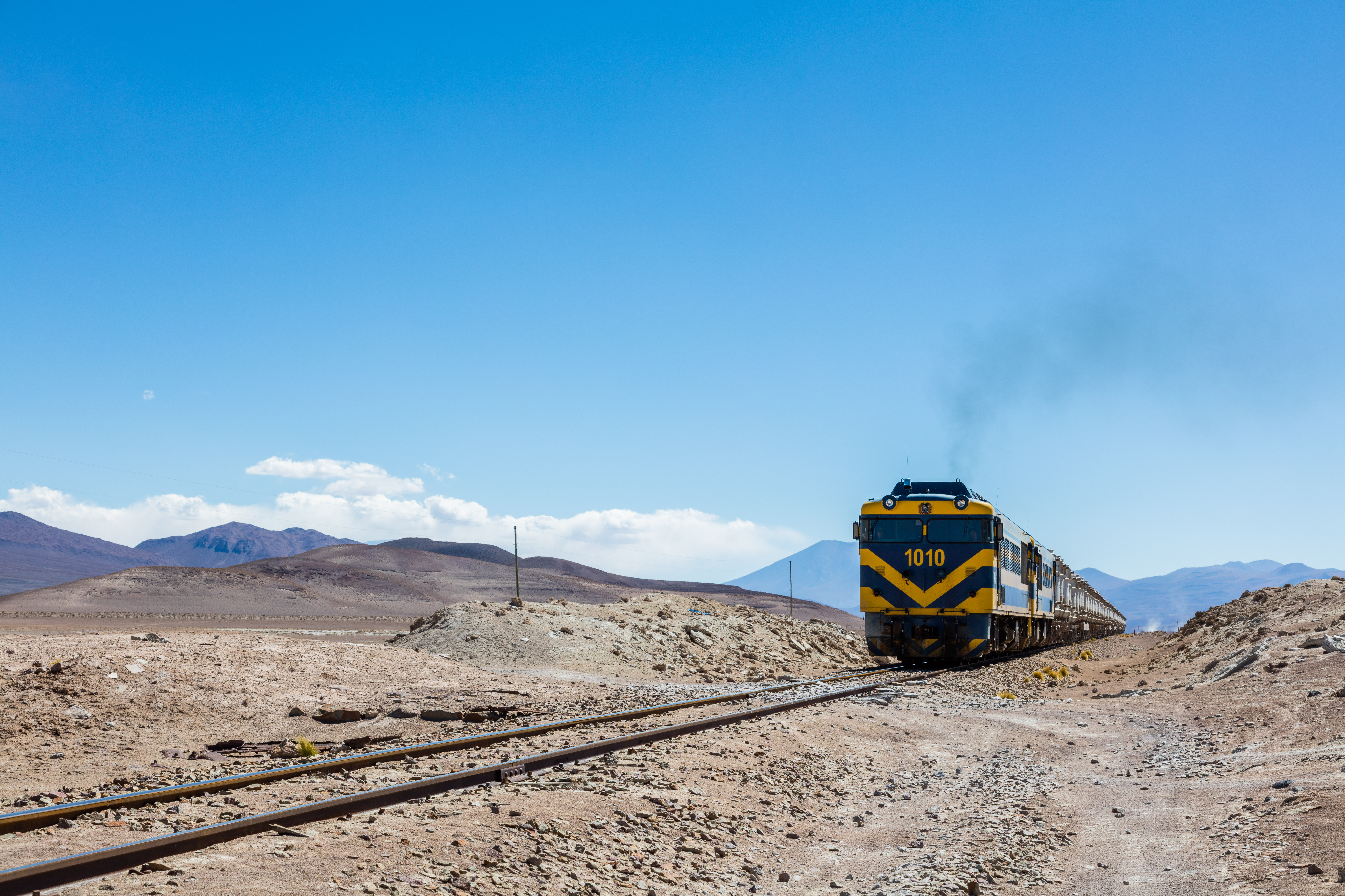 FCA train in the route Ollagüe-Uyuni, Bolivia